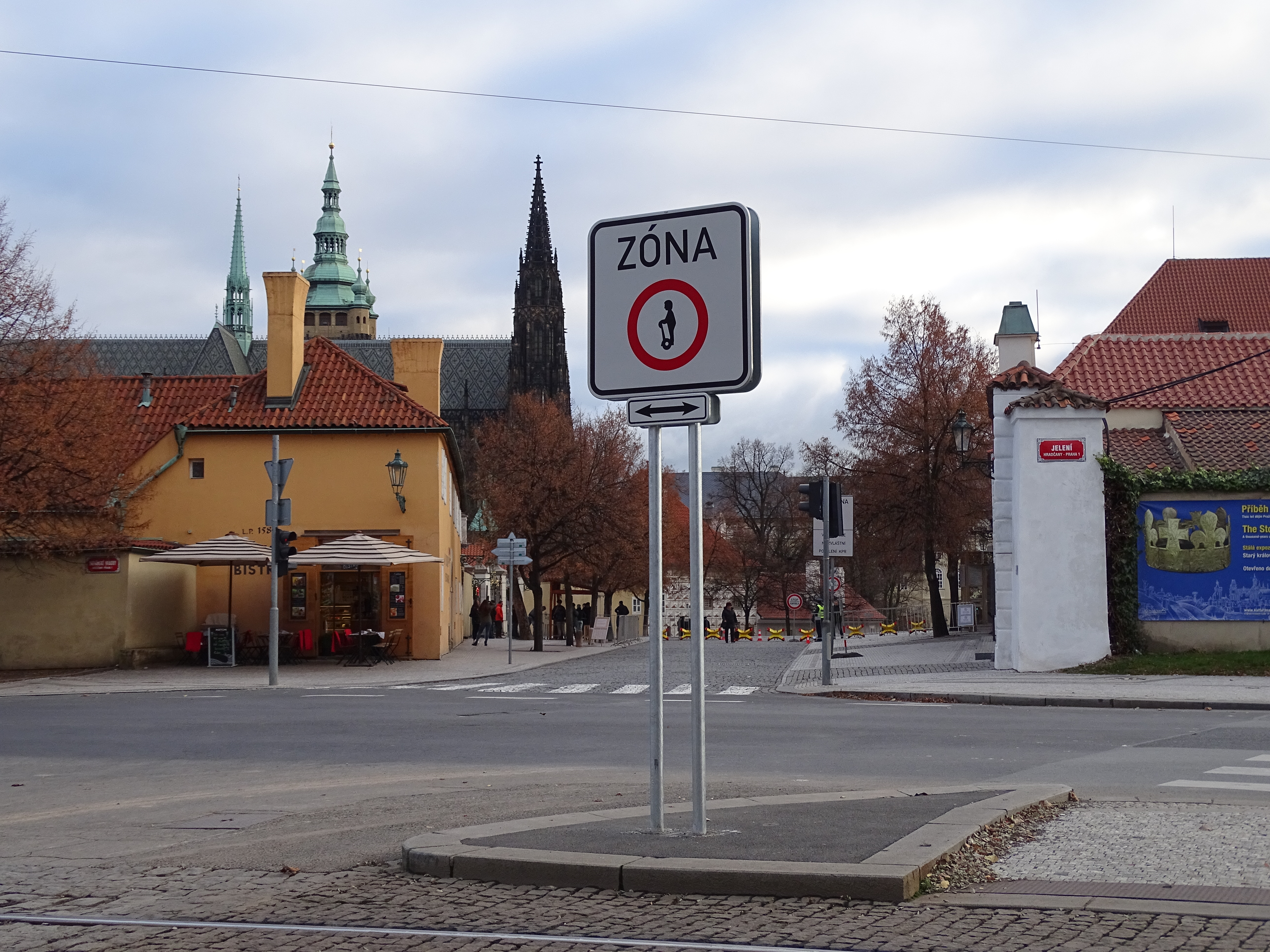 Prague-Hradčany, Czechia. U Prašného mostu, Jelení and Mariánské hradby streets, no segway sign.